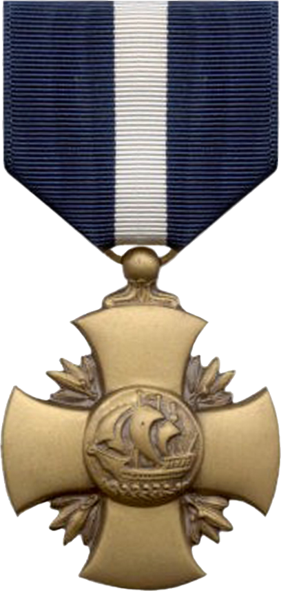 Navy Cross